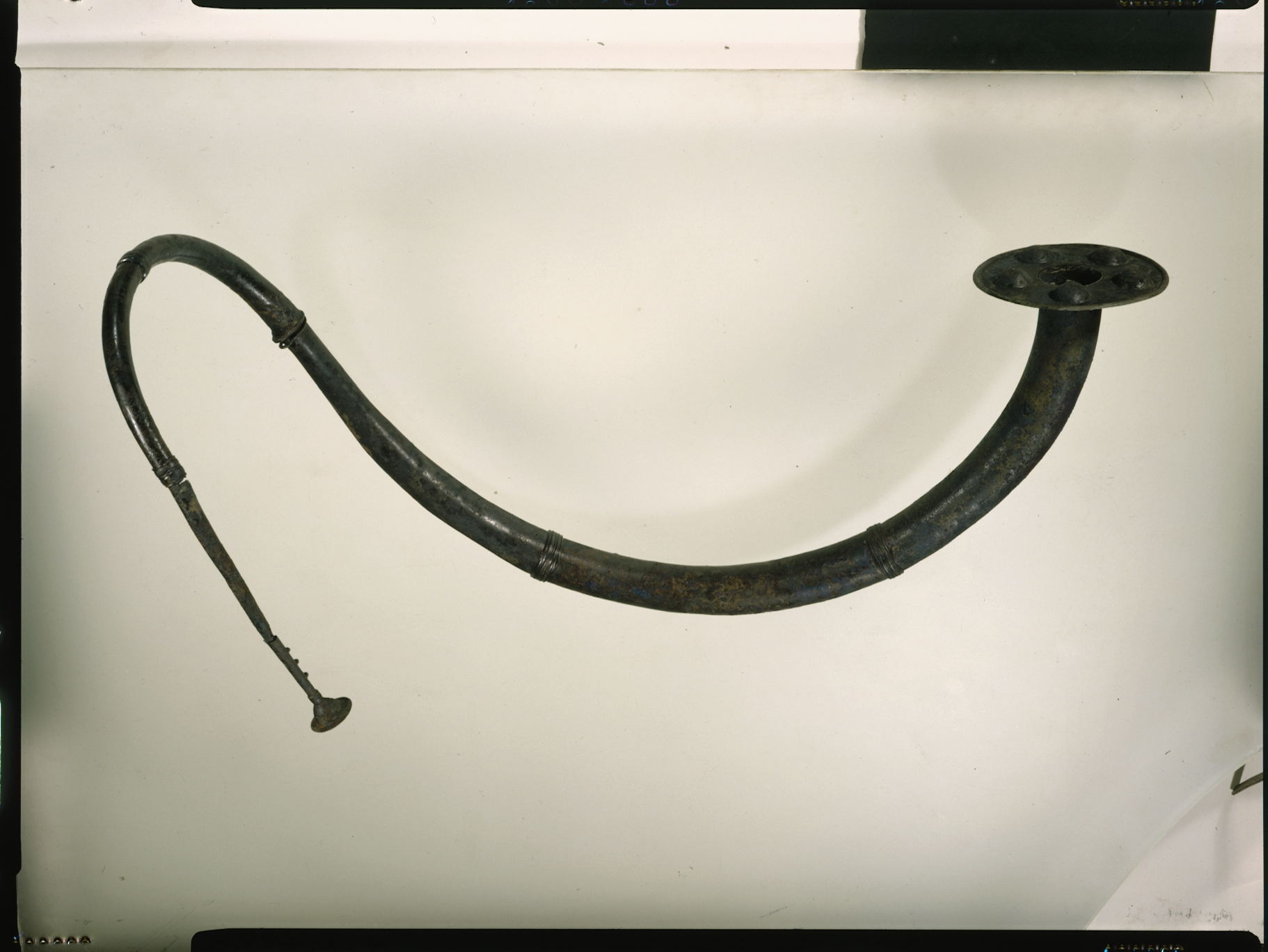 Lur from Ulvkær, Horne sogn, Denmark (B17481)